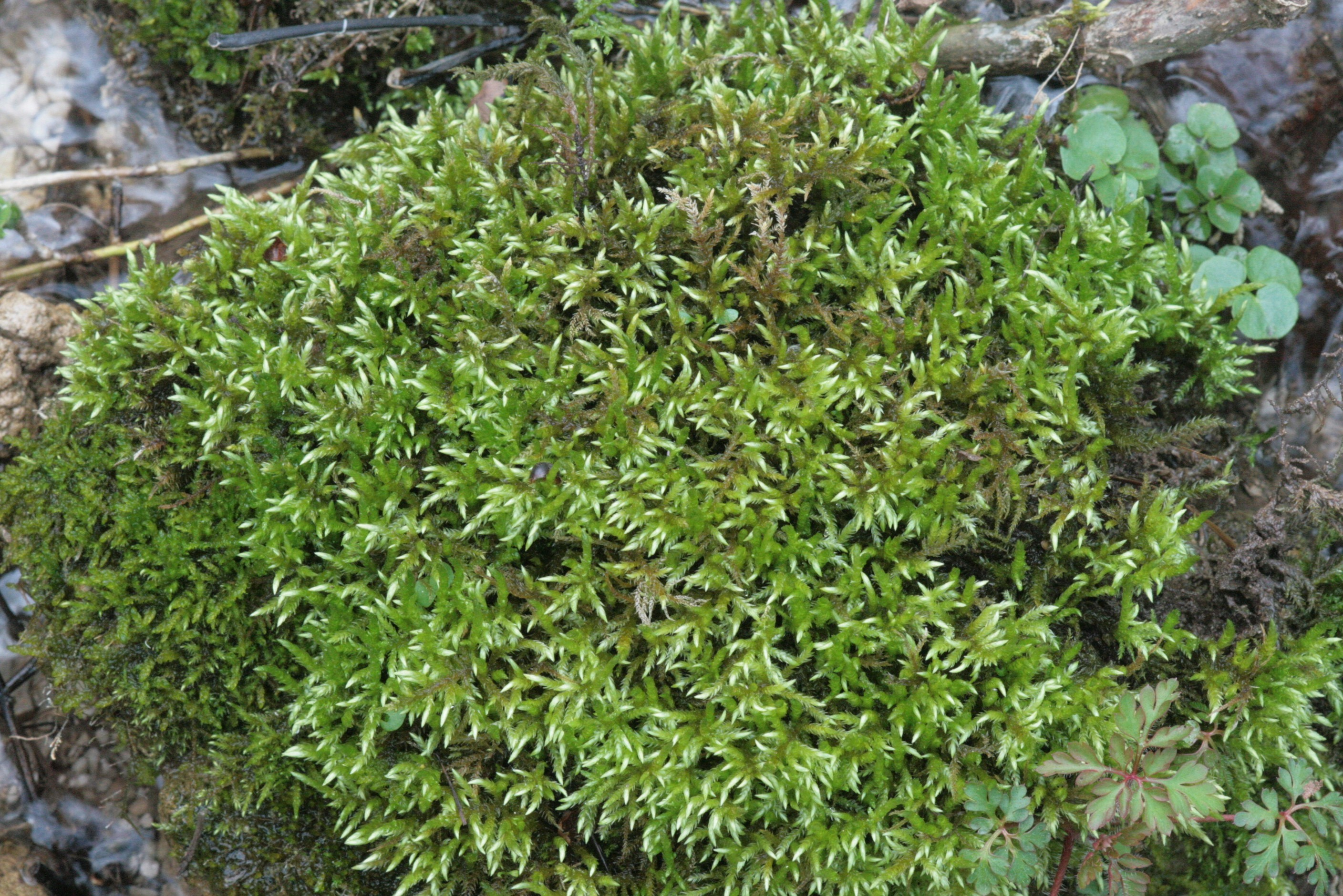 Brachythecium rivulare